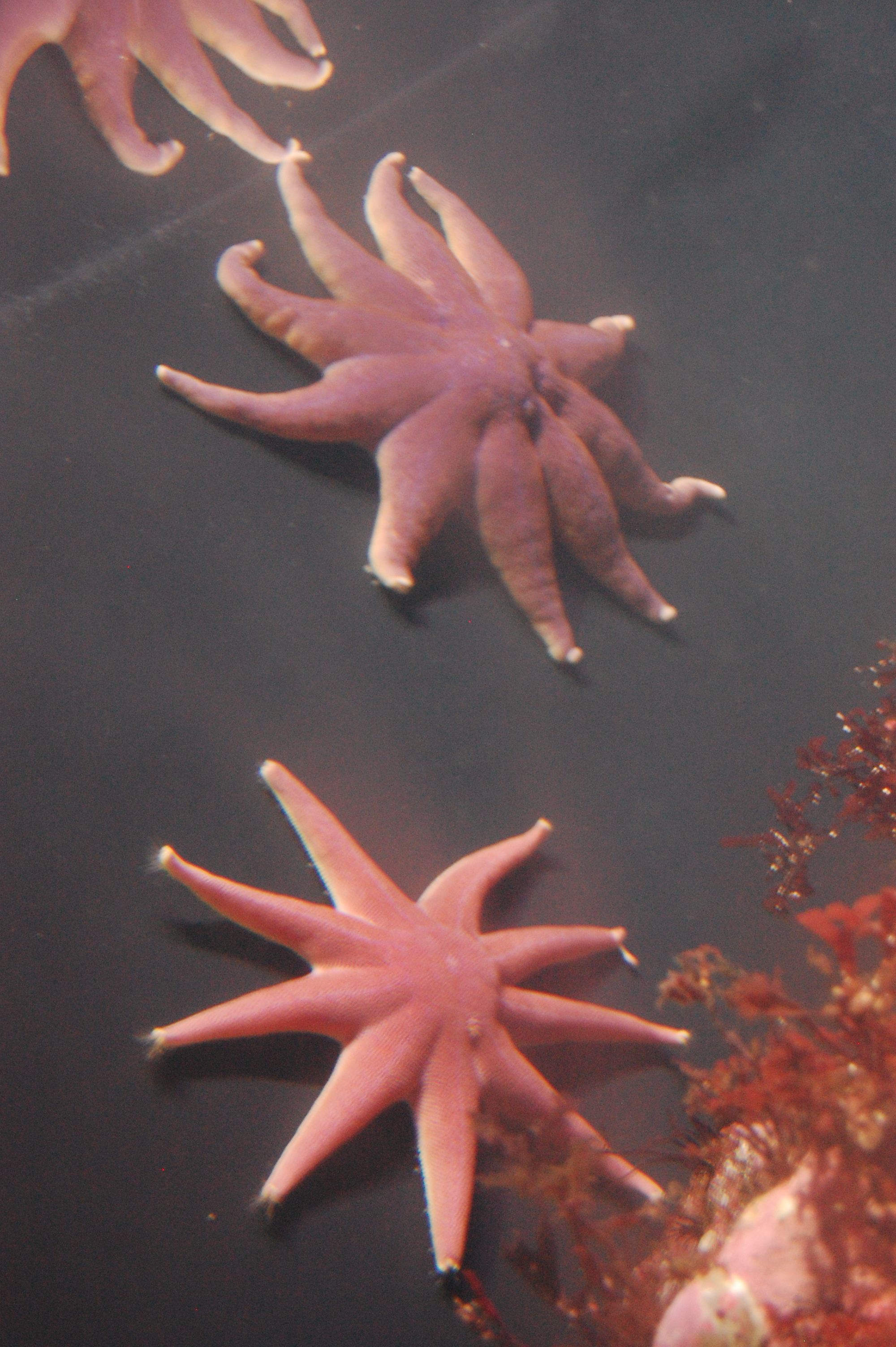 Purple sun stars (Solaster endeca) at the New England Aquarium, Boston MA.